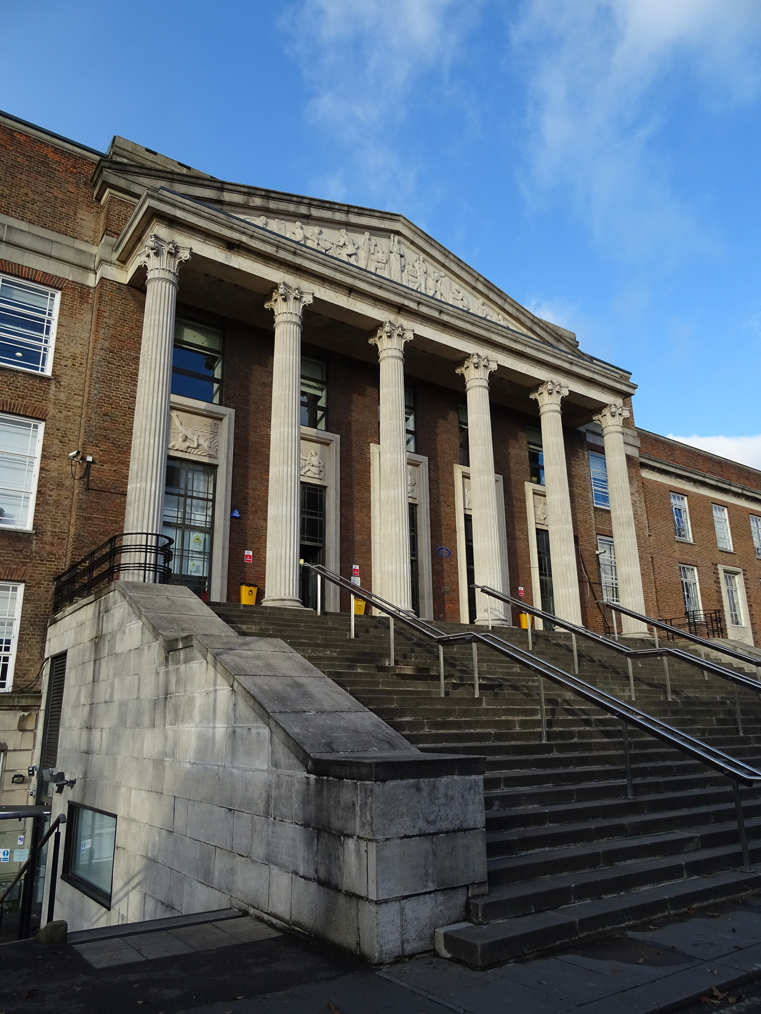 Peter Blake, Ian Dury, Peter Greenaway & Ken Russell Erected in 1938 as The South West Essex Technical College Waltham Forest College has contributed to the careers of several notable talents. Musician Ian Dury, filmmakers Peter Greenaway and Ken Russell, attended the Art School where artist Peter Blake was a lecturer - 707 Forest Road, Walthamstow, London E17 4JB